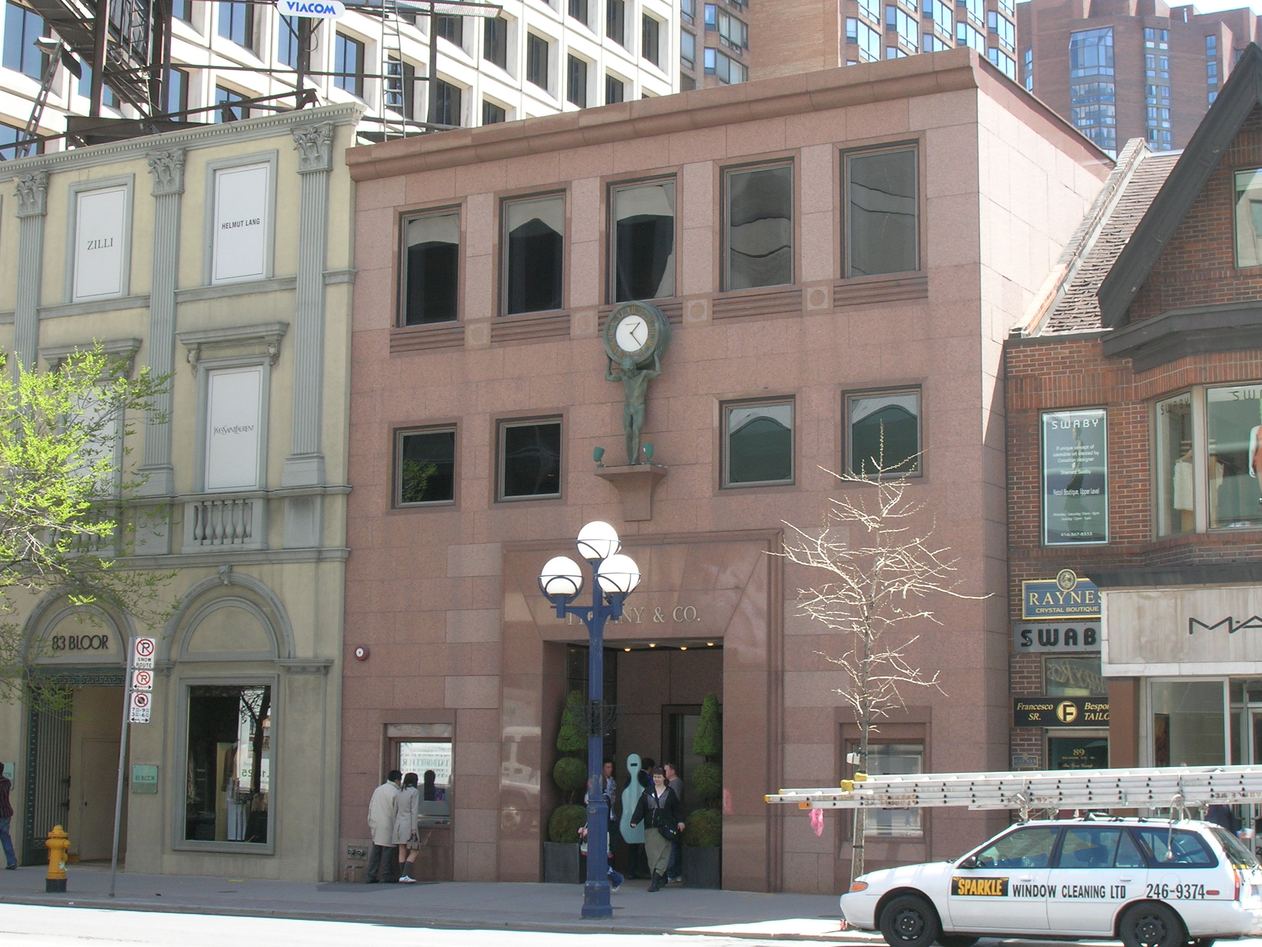 This Tiffany & Co. store is located on Bloor Street in Toronto, Ontario. The photo was taken on April 28, 2006.